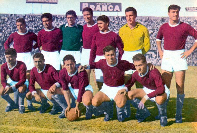 The Lanus association football team.